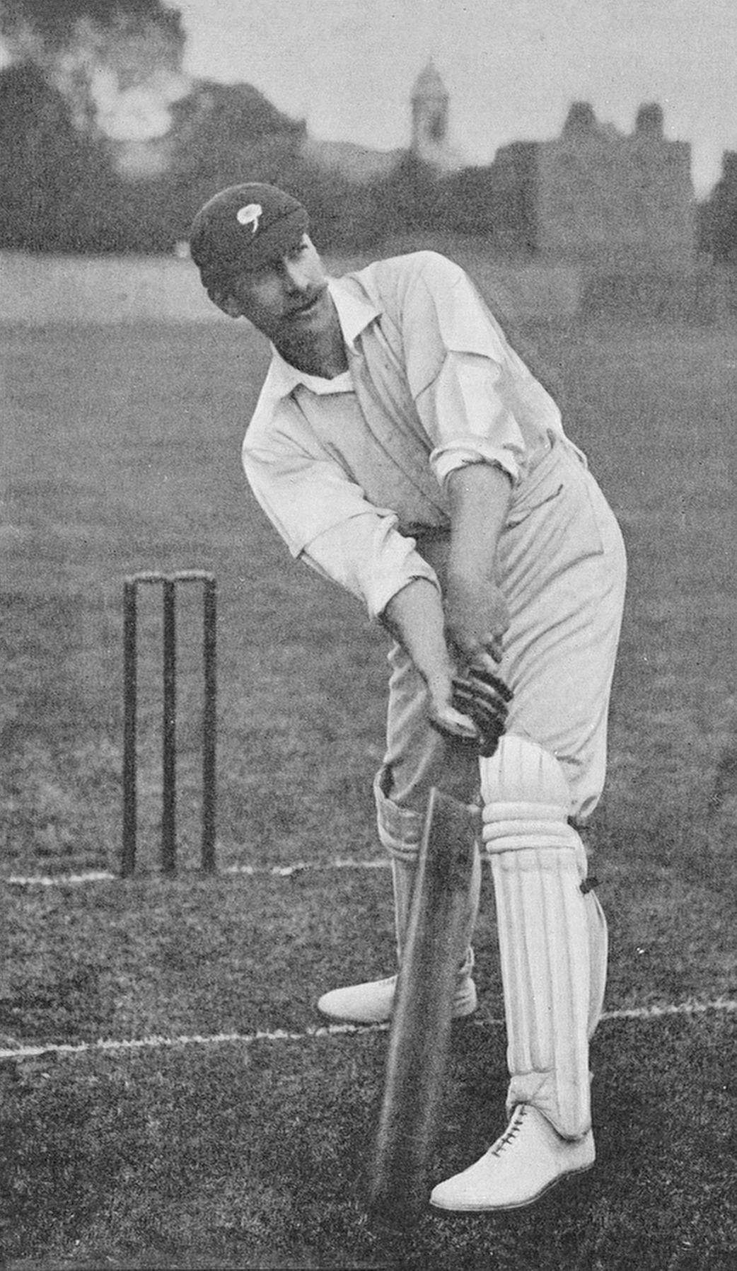 "F. S. Jackson making an on-drive."